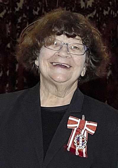 Joy Cowley, after her investiture as a Member of the Order of New Zealand, on 14 May 2018